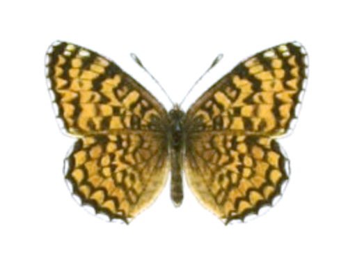 Melitaea phoebe Knoch f. punica Oberth. = Melitaea punica Oberthür, 1876, ♂